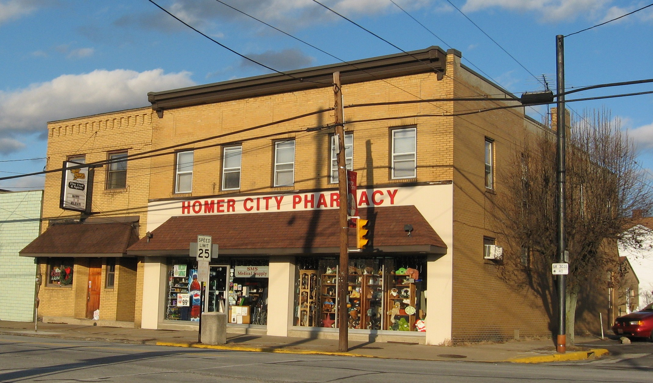 Homer City, Pennsylvania Pharmacy